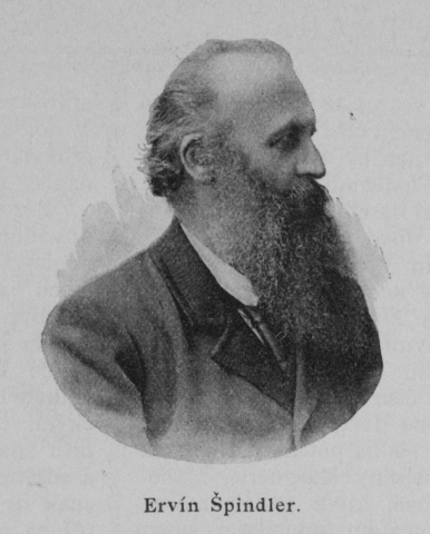 Portrait of Ervín Špindler (1843-1918), Czech journalist, writer and politician.